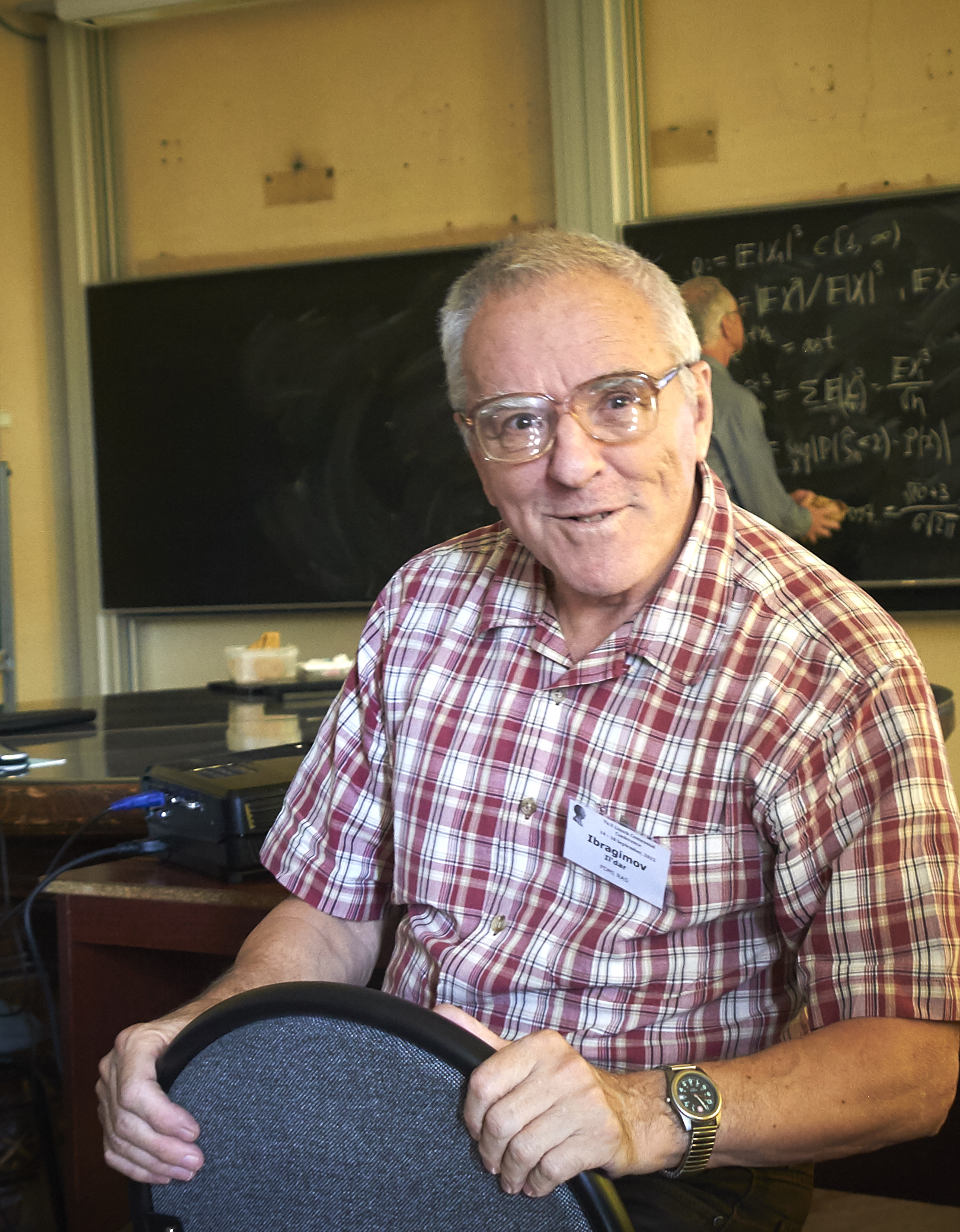 Ildar Ibragimov, one of the most respected specialists in probability theory and statistics, a long time Head of the St.Petersburg division of the Mathematical Institute of the Russian Academy of Sciences